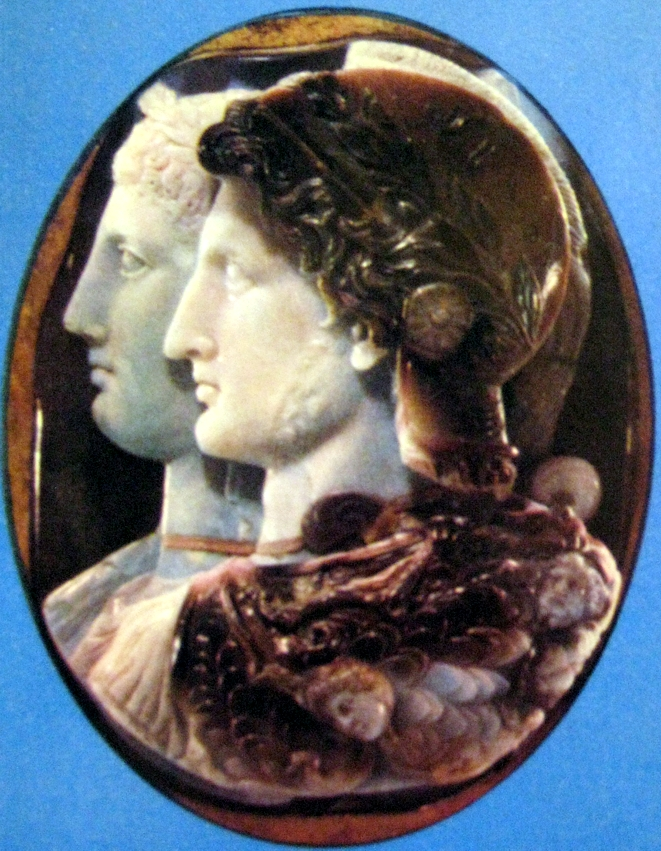 Cameo Gonzaga/ Камея Гонзага. Ptolemy II and Arsinoe II, III c. BC, Alexandria. Hermitage